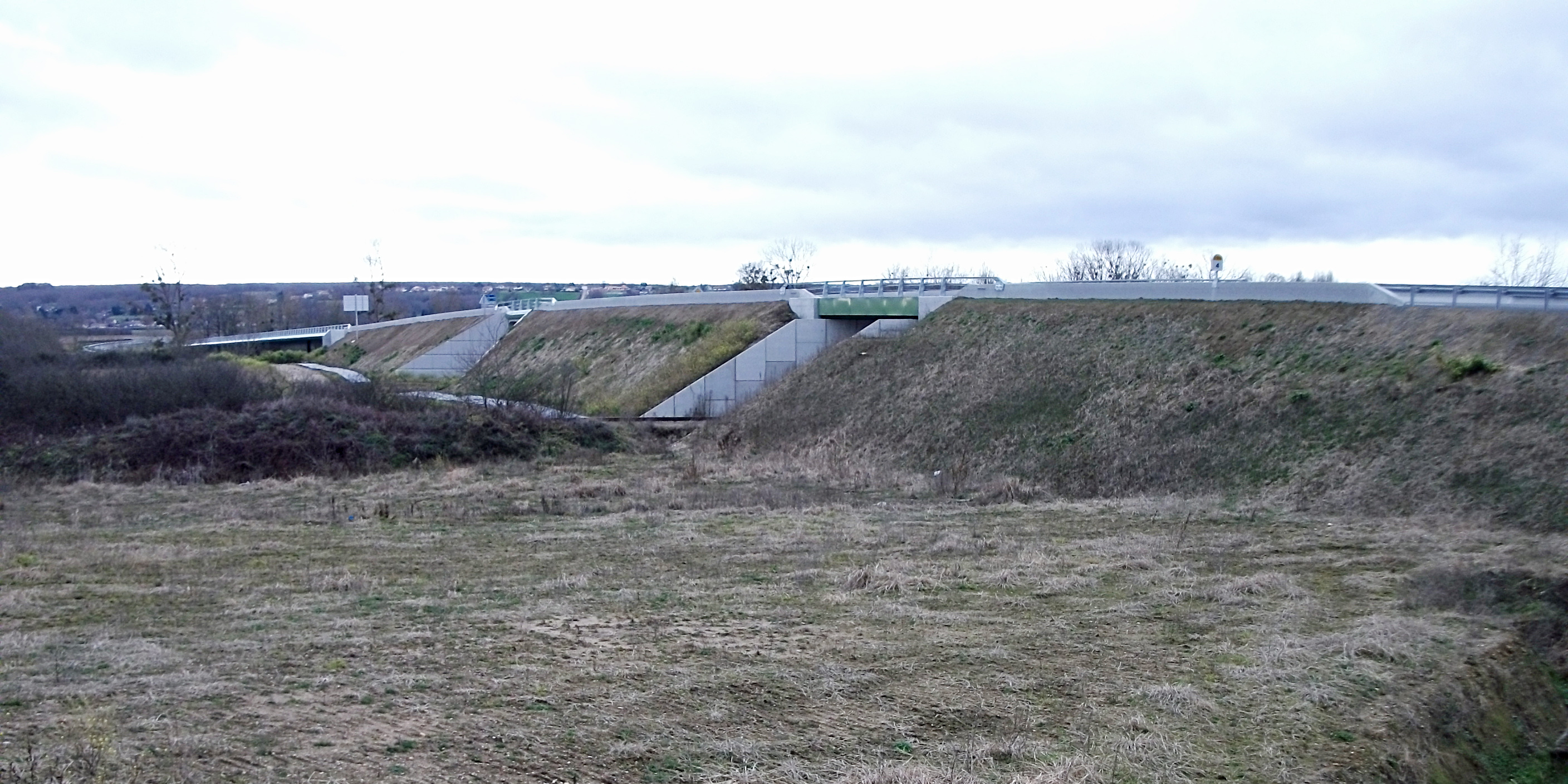 First meters and bridges of Vichy's "contournement sud-ouest" from departmental road 906 in the south of Saint-Yorre [9831 retouched]